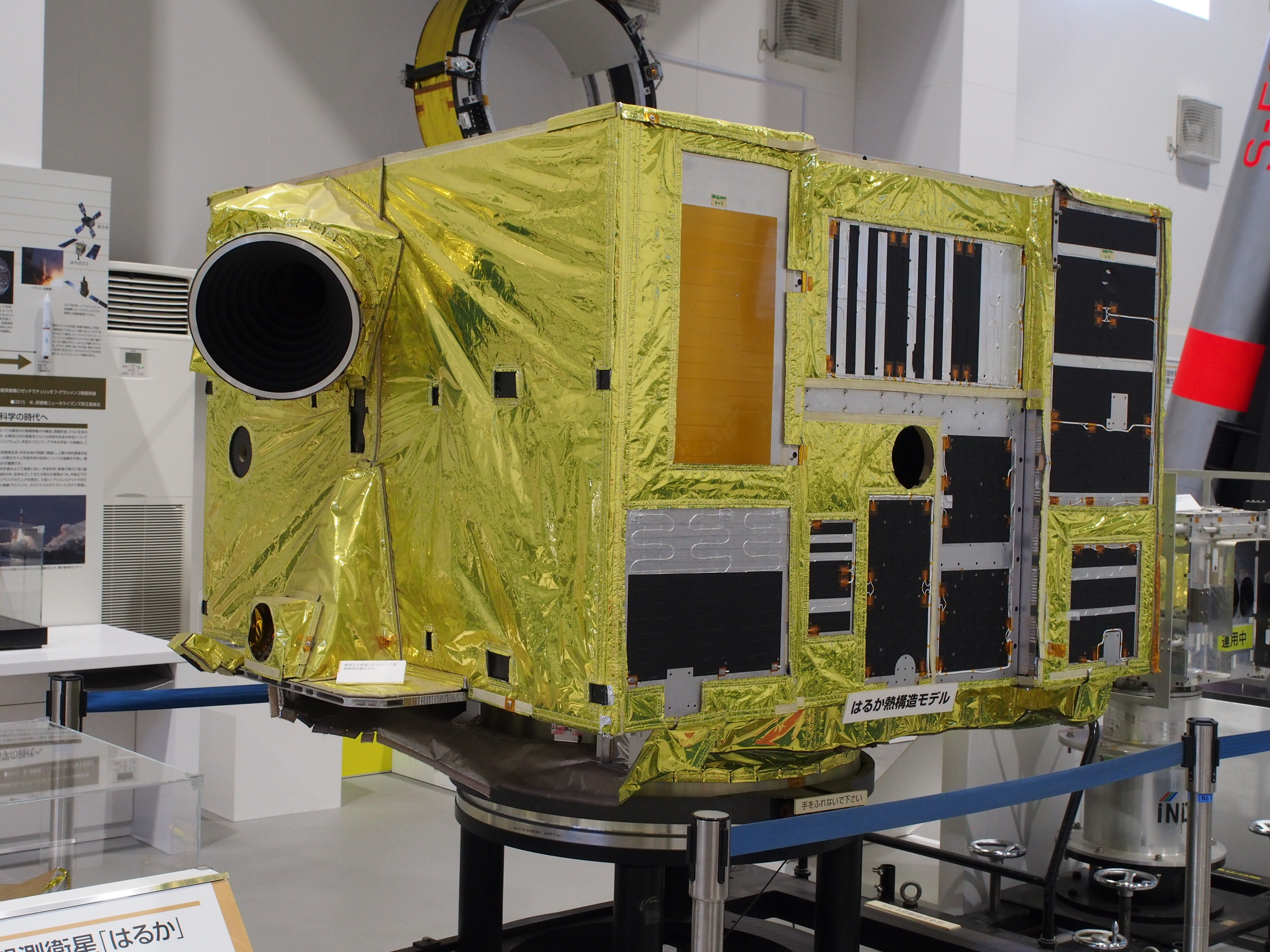 Structural thermal model of HALCA (MUSES-B), a space-VLBI technology demonstration satellite launched in 1997. Exhibited at the Communication Hall of Space Science and Exploration, in Sagamihara Campus, Institute of the Space and Astronautical Science (ISAS), Japan Aerospace Exploration Agency (JAXA), in Sagamihara City, Kanagawa Prefecture, Japan.